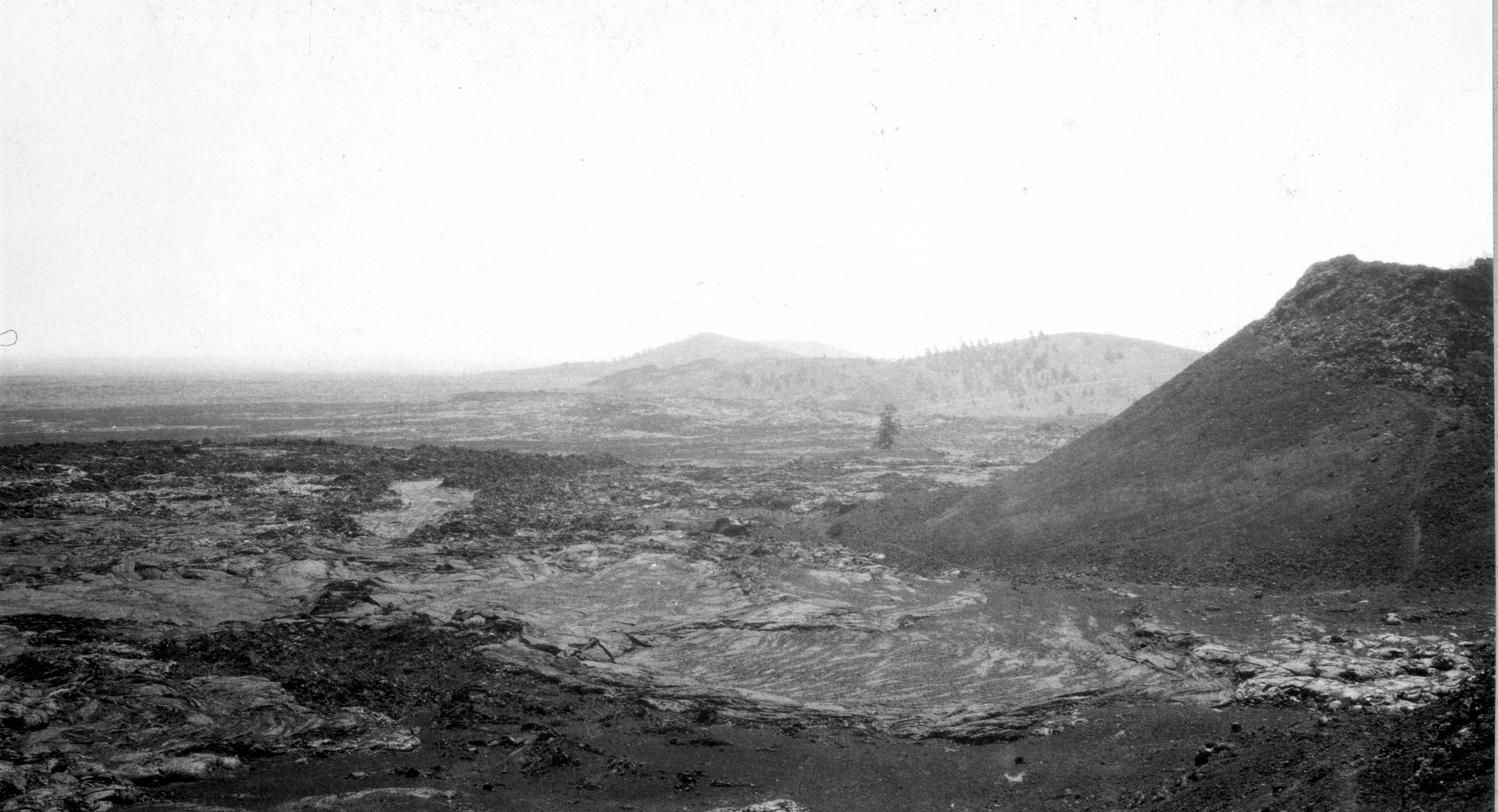 Original Caption: Craters of the Moon National Monument. Recent basalt flow, southeast of "Big Craters."